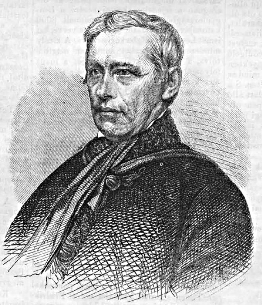 Lajos Zsarnay calvinist bishop